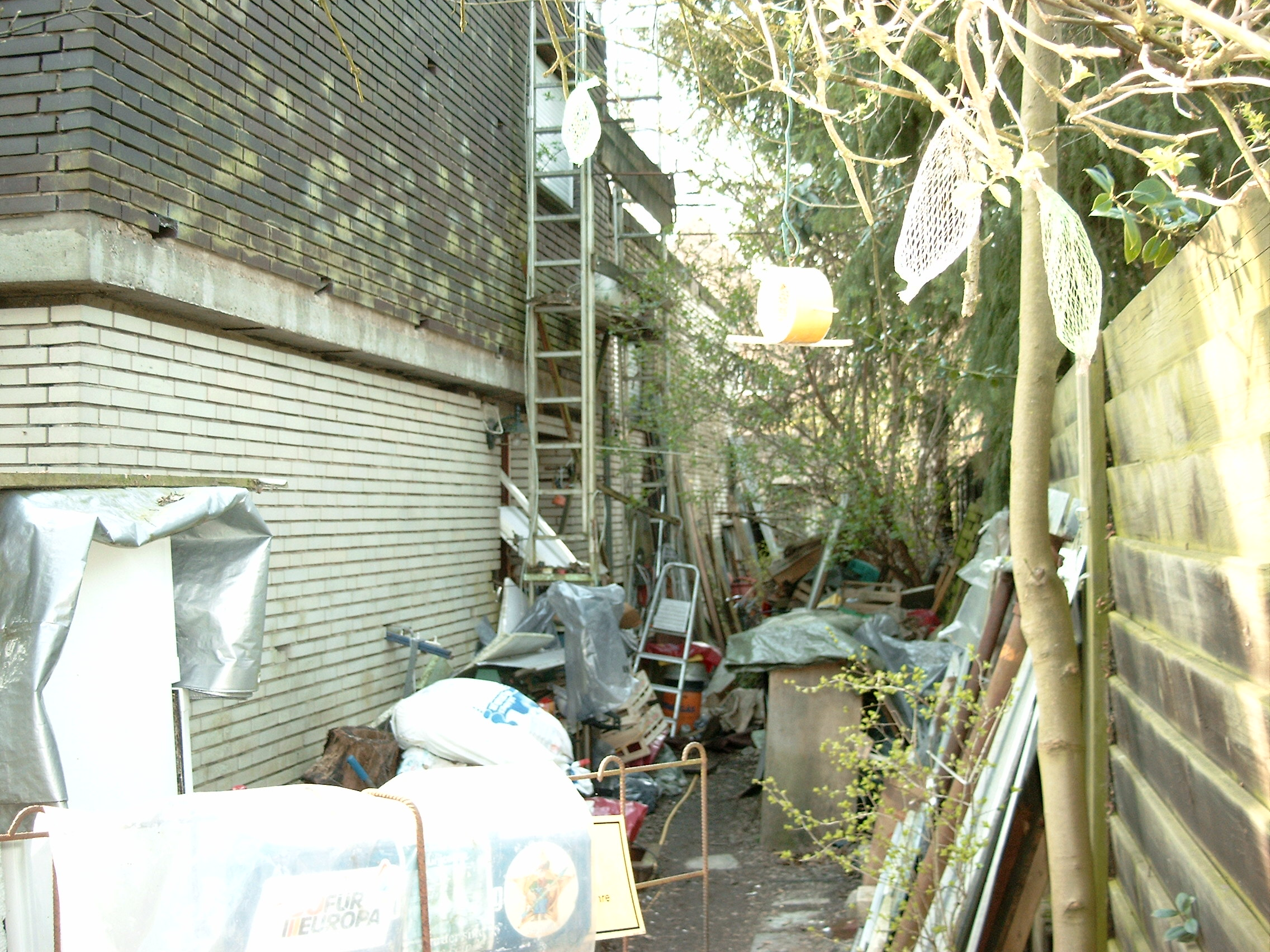 Compulsive hoarding home entrance